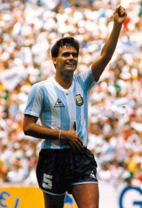 José L. Brown celebrating at the FIFA World Cup final.